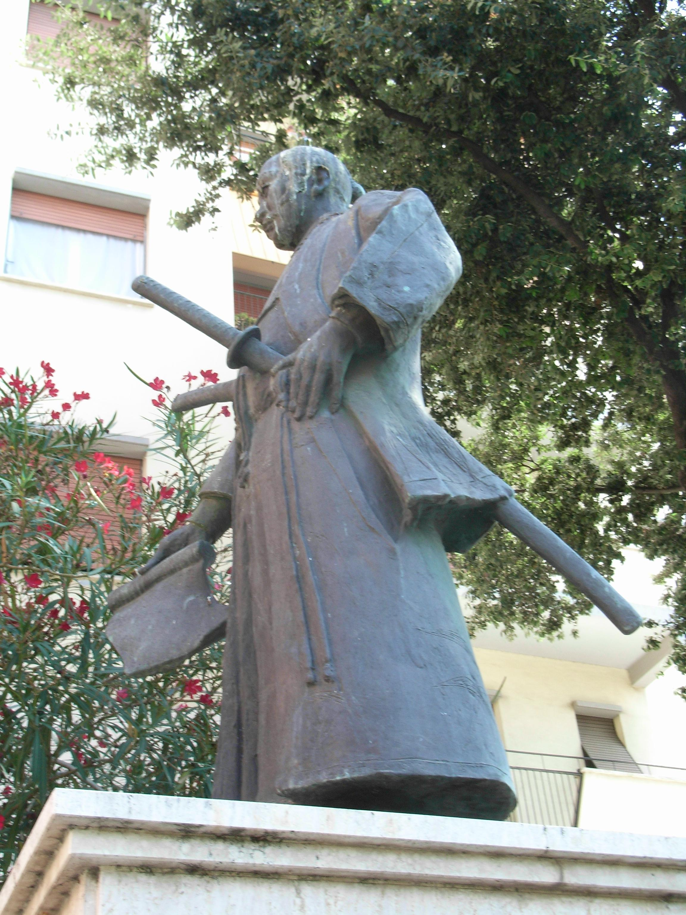 Hasekura Tsunenaga Statue Civitavecchia, Italy